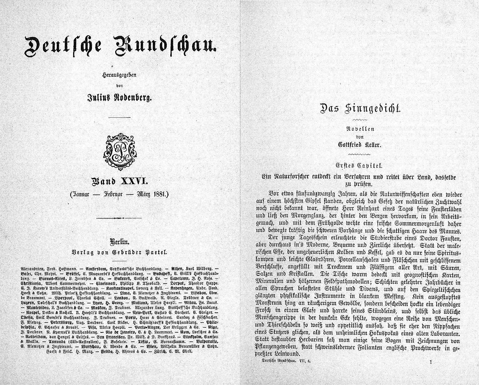 Frontpage and 1st page of "Deutsche Rundschau" (periodical ed. by Julius Rodenberg, Berlin), Vol. XXVI (1881) with the beginning of "Das Sinngedicht", novellas by Gottfried Keller